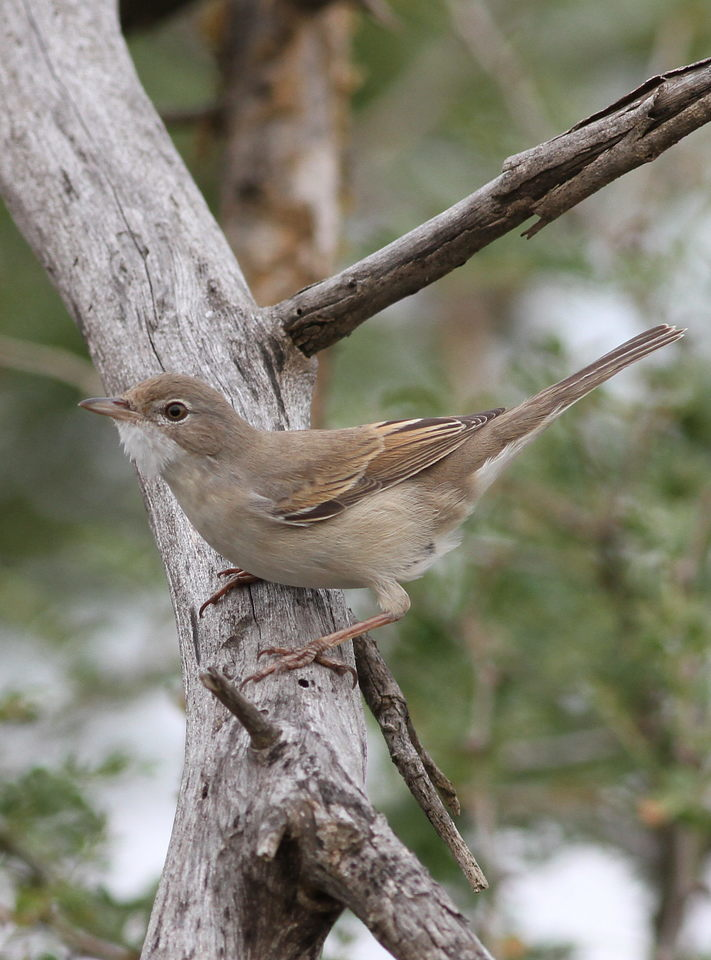 Common whitethroat, Sylvia communis at Pilanesberg National Park, Northwest Province, South Africa